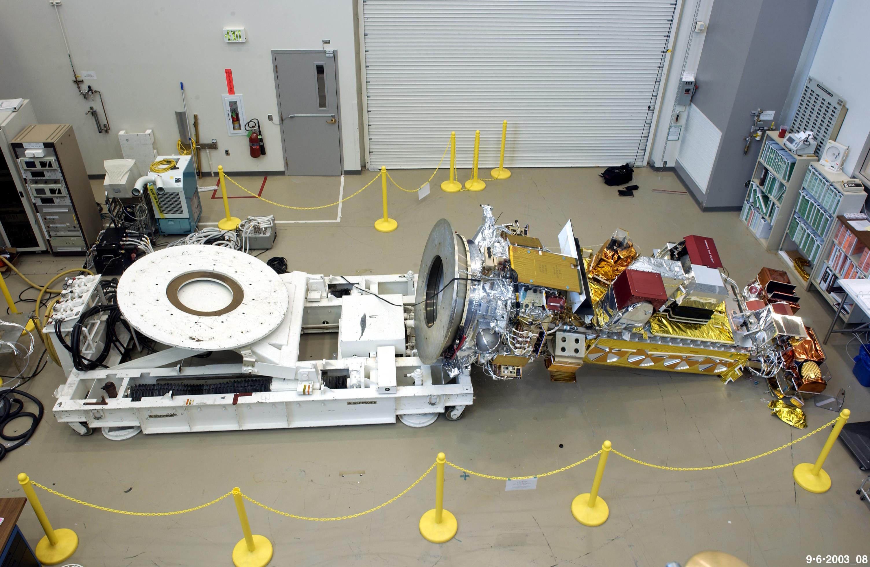 NOAA-19, designated NOAA-N' (NOAA-N Prime) prior to launch, is the last of the United States National Oceanic and Atmospheric Administration's POES series of weather satellites (which is scheduled to be replaced by the next-generation NPOESS series). The satellite suffered an accident prior to launch which resulted in it falling off its clean room mounting, resulting in significant damage. After being repaired, NOAA-19 was launched on 6 February 2009.